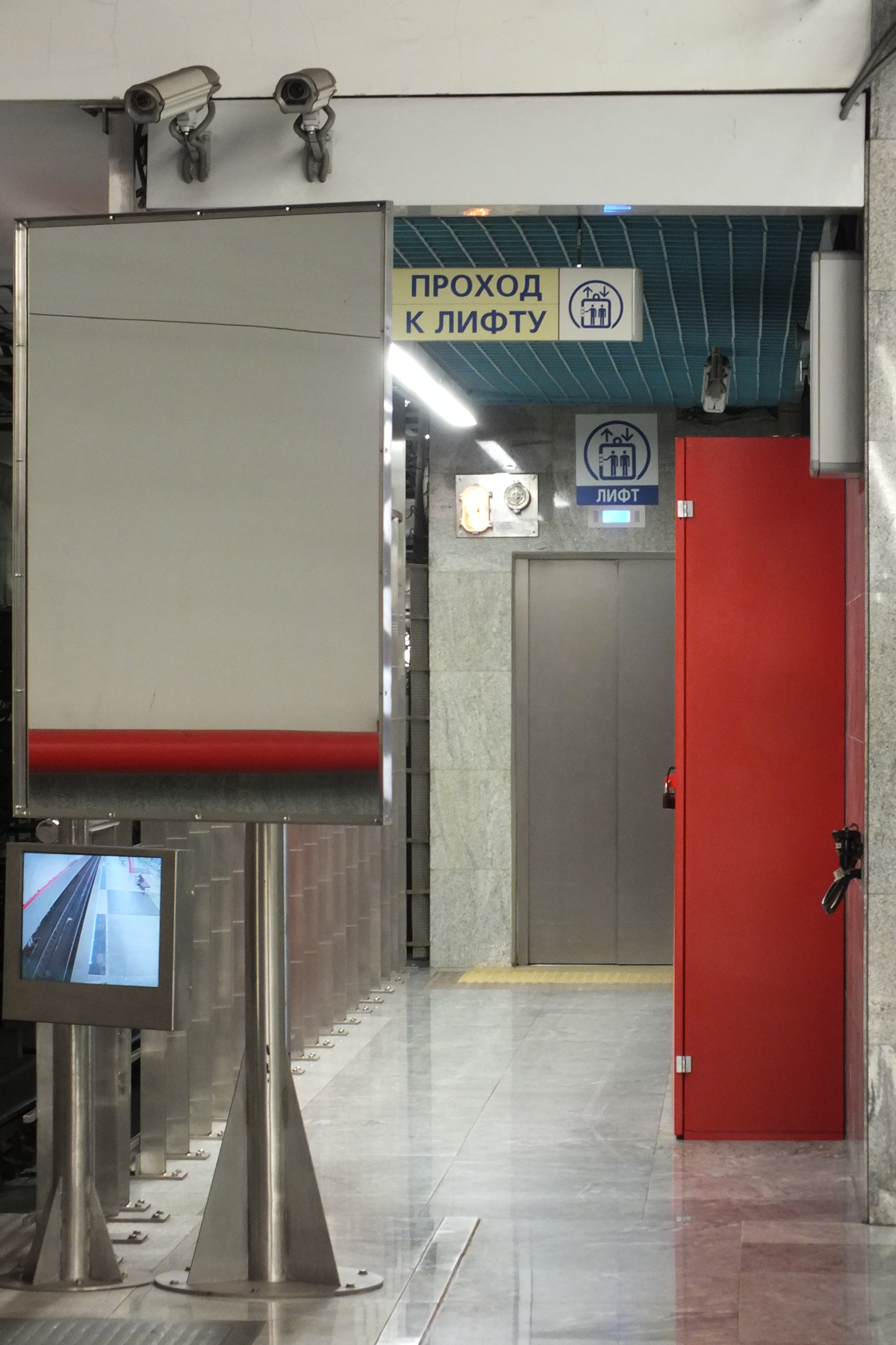 An elevator (lift) on Alma-Atinskaya metro station.